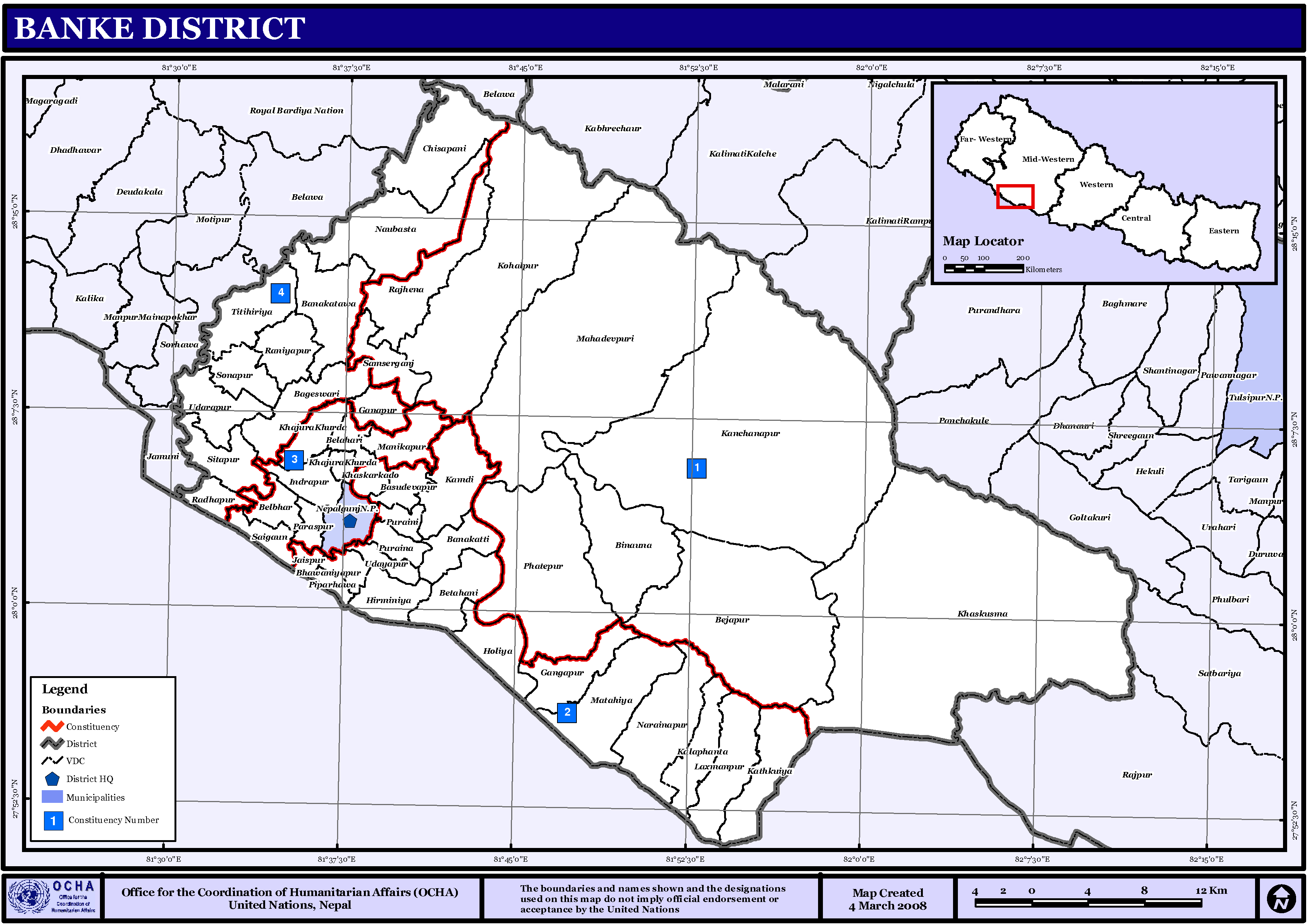 Map displaying Village Development Committees in Banke District, Nepal